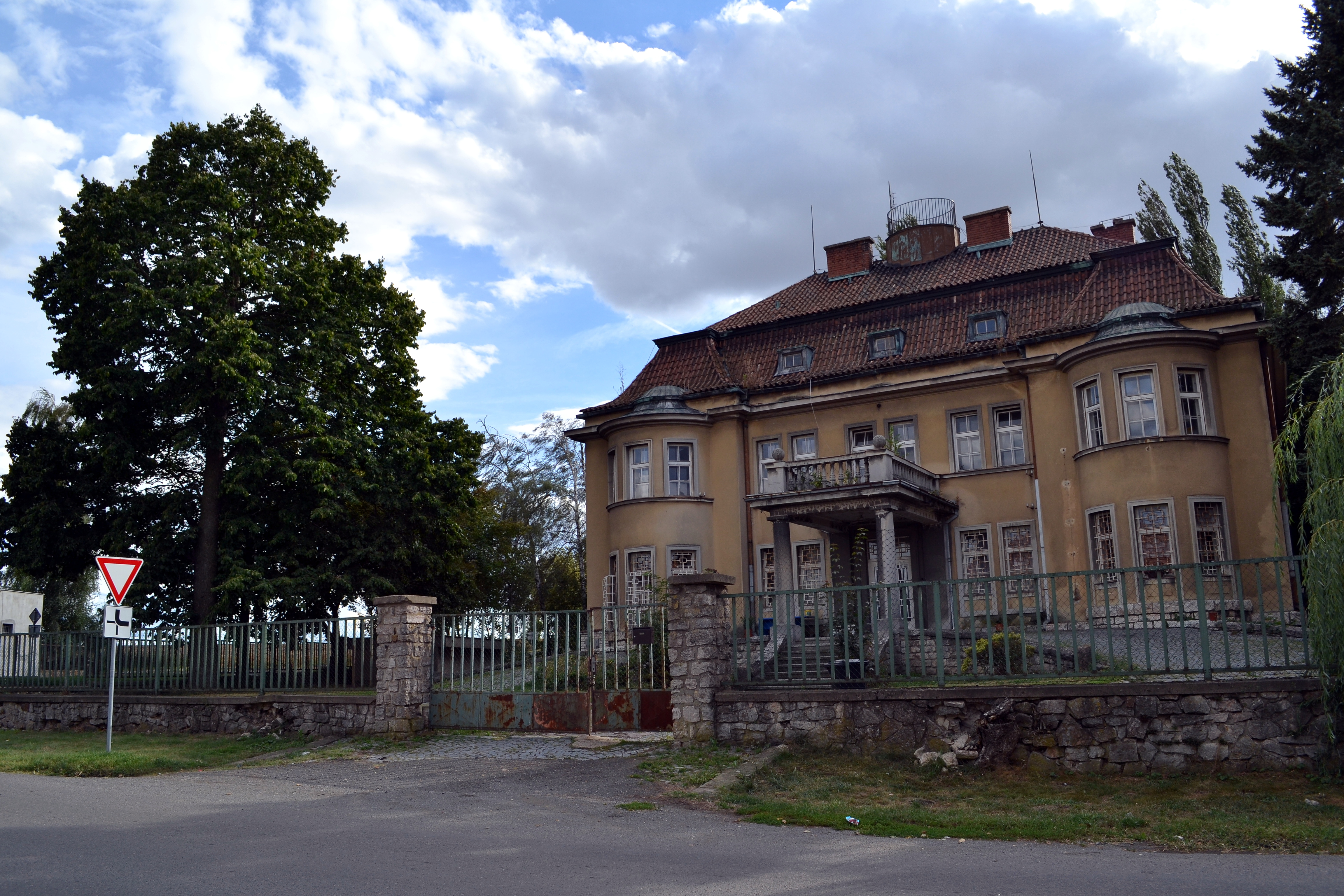 A villa in the village Lichoceves, Central Bohemian Region, Czech Republic.